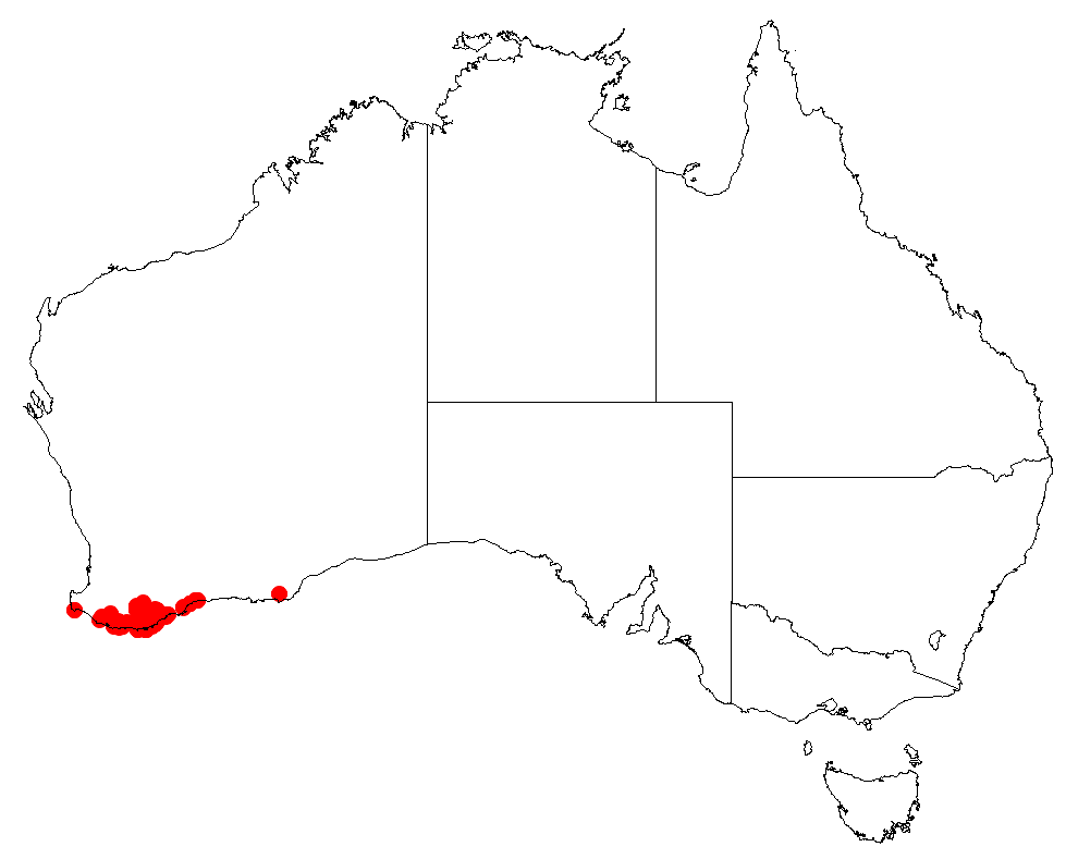 Hakea florida Occurrence data downloaded from Australasian Virtual Herbarium on 22 November 2018 using